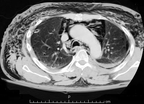 Modified version of Image:Subcutaneous emphysema chest.jpg, a CT scan of a patient with severe subcutaneous emphysema. Chest CT.